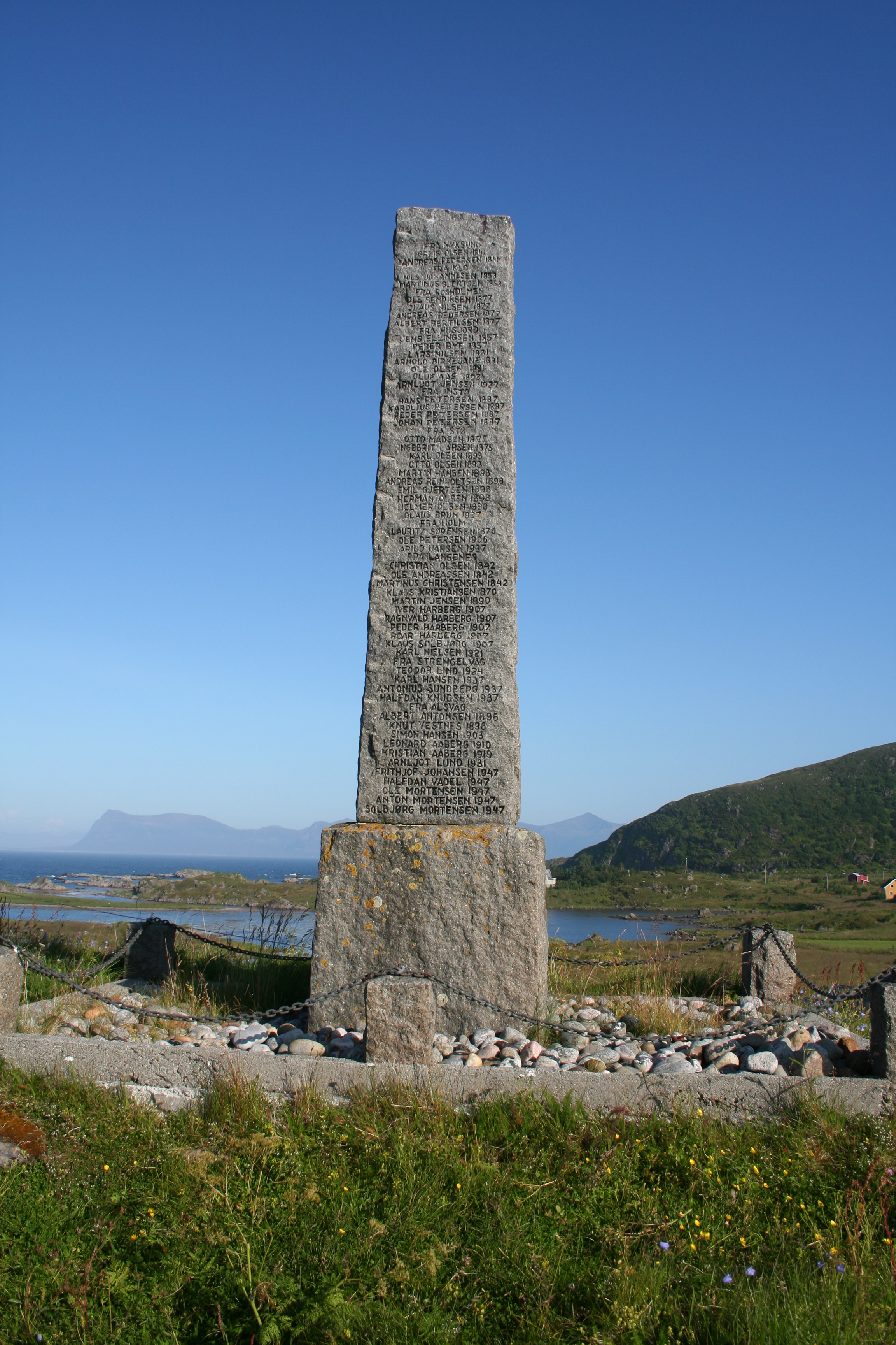 Monument of fishermen lost at sea, near Langenes church, Norway. The monument was erected in 1944. This picture was taken by me on 31 July 2006.